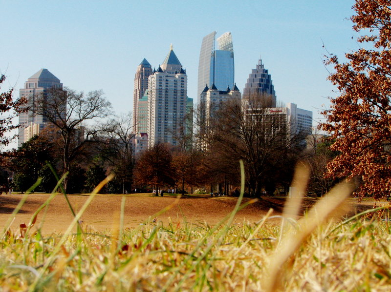 The view from Piedmont Park in Atlanta, Ga just behind Park Tavern.